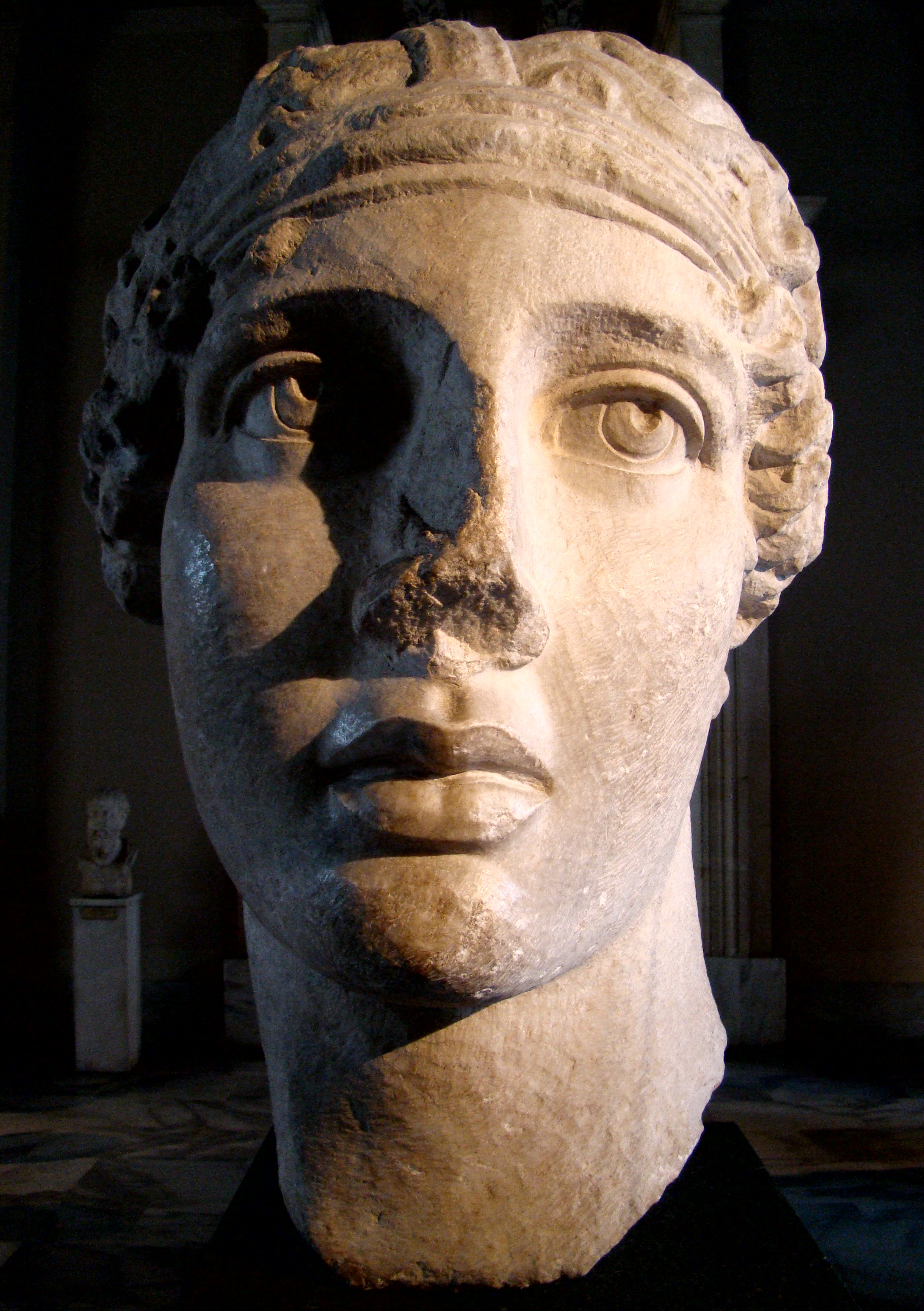 A marble bust of the poetess Sappho, Roman, found in Smyrna, present-day Izmir, Turkey. The bust is on display at the Istanbul Archaelogical Museum.